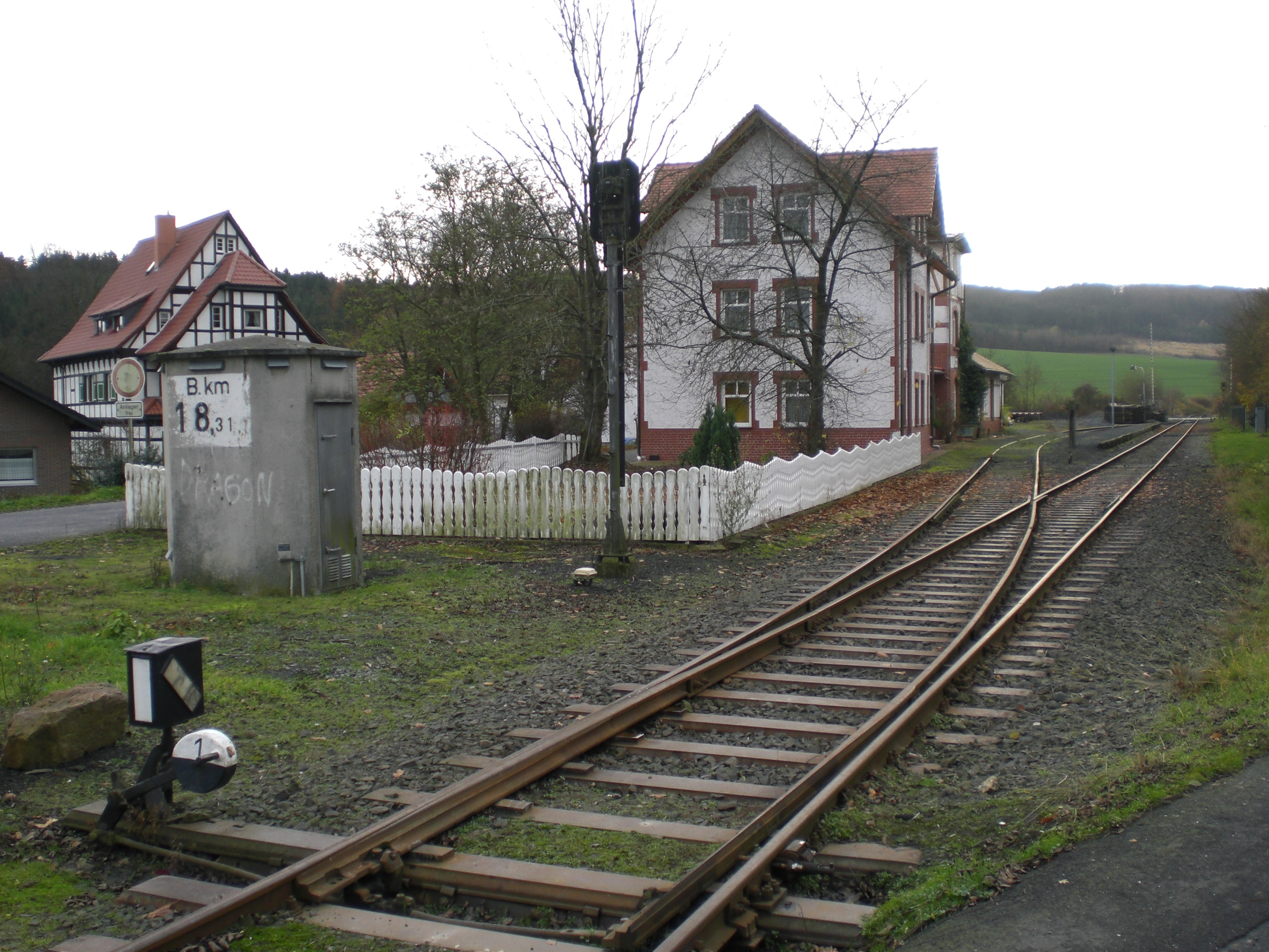 Railway station at Schauenburg-Hoof, northern Hesse